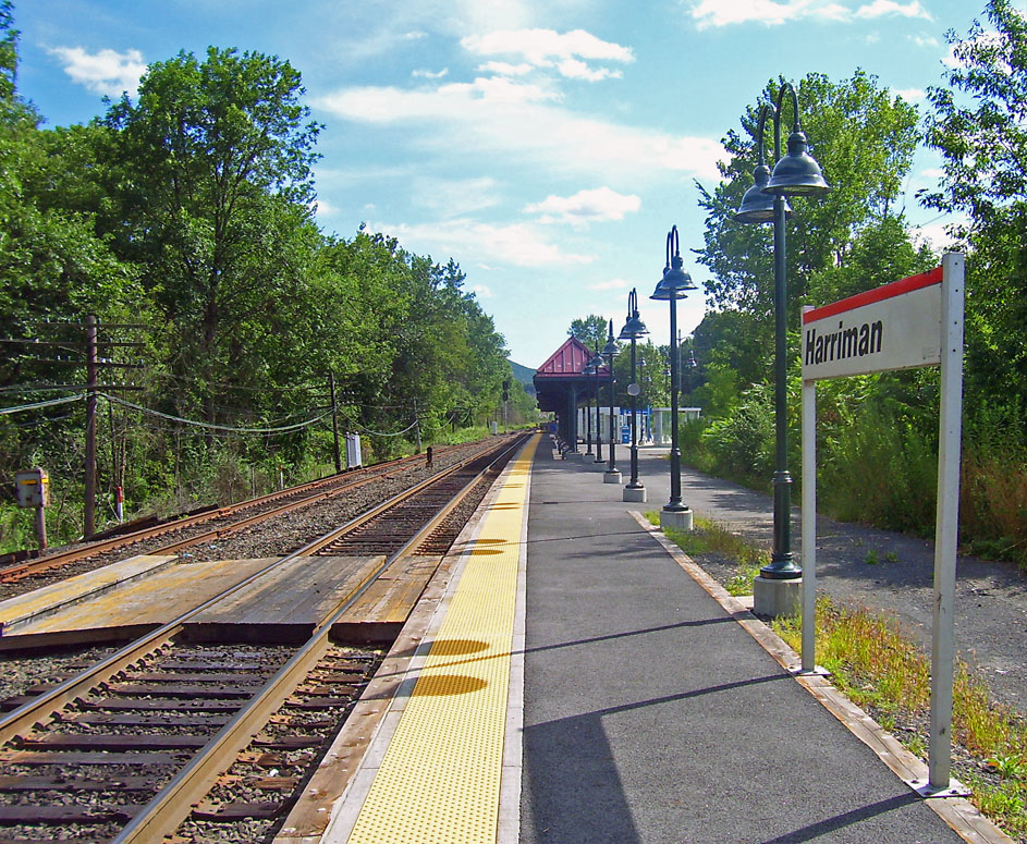 Photographed by Daniel Case 2006-08-13